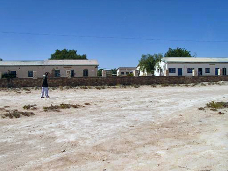 Erigavo city, Sanaag, Somalia